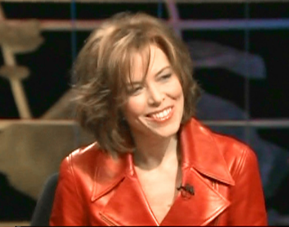 A portrait of Heather Higgins